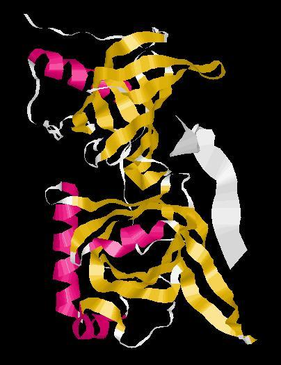 Crystal Structure Of Hpot1v2 + oligonucleotide Ggttagggttag